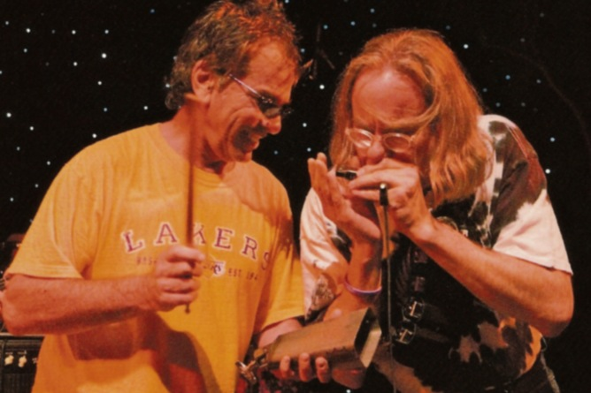 Mickey Hart and Tony Bove (right), 2006 (photo by Jay Blakesberg)